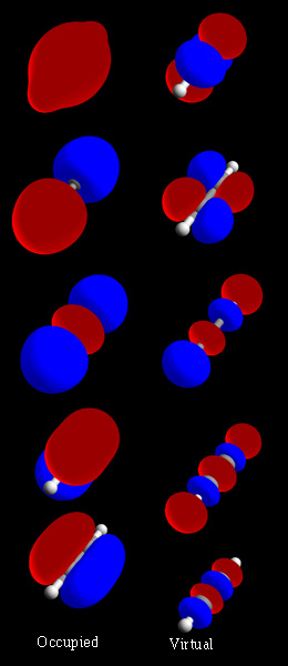 "Complete acetylene molecular orbital set using semiempirical AM1 method"